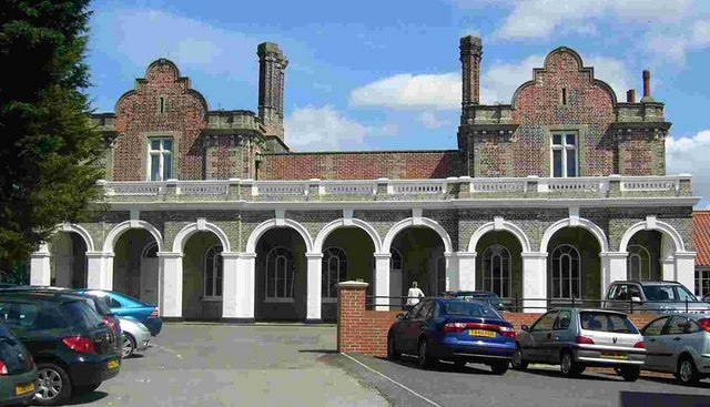 Maldon East Railway Station This station building in the Queen Ann style is all that remains of the line from Witham which closed in the 1960s - Maldon had the distinction of having two rail stations the other stood on the A414 where a roundabout now stands on the Maldon Western bypass